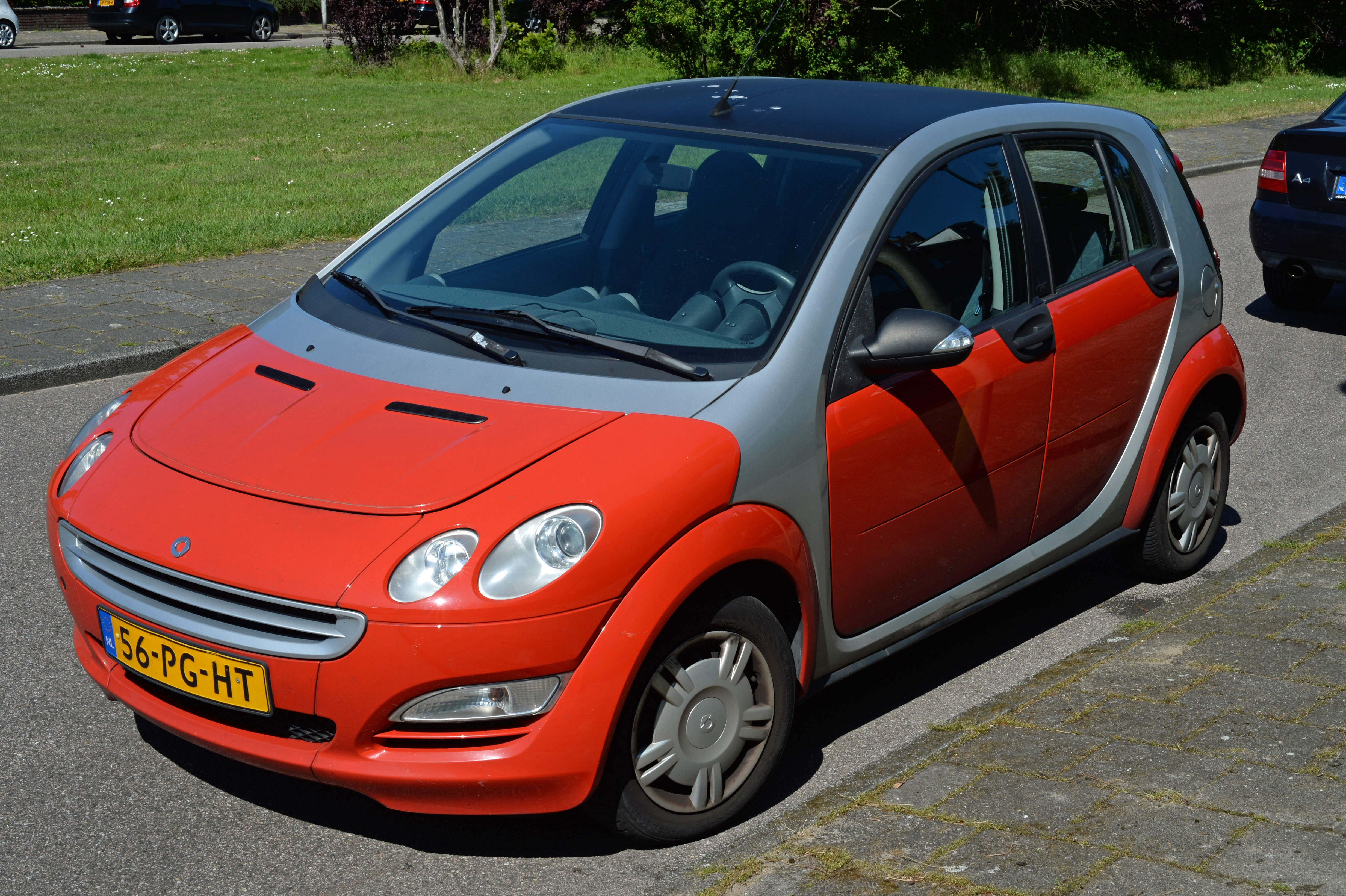 2004 Smart Forfour 1.3